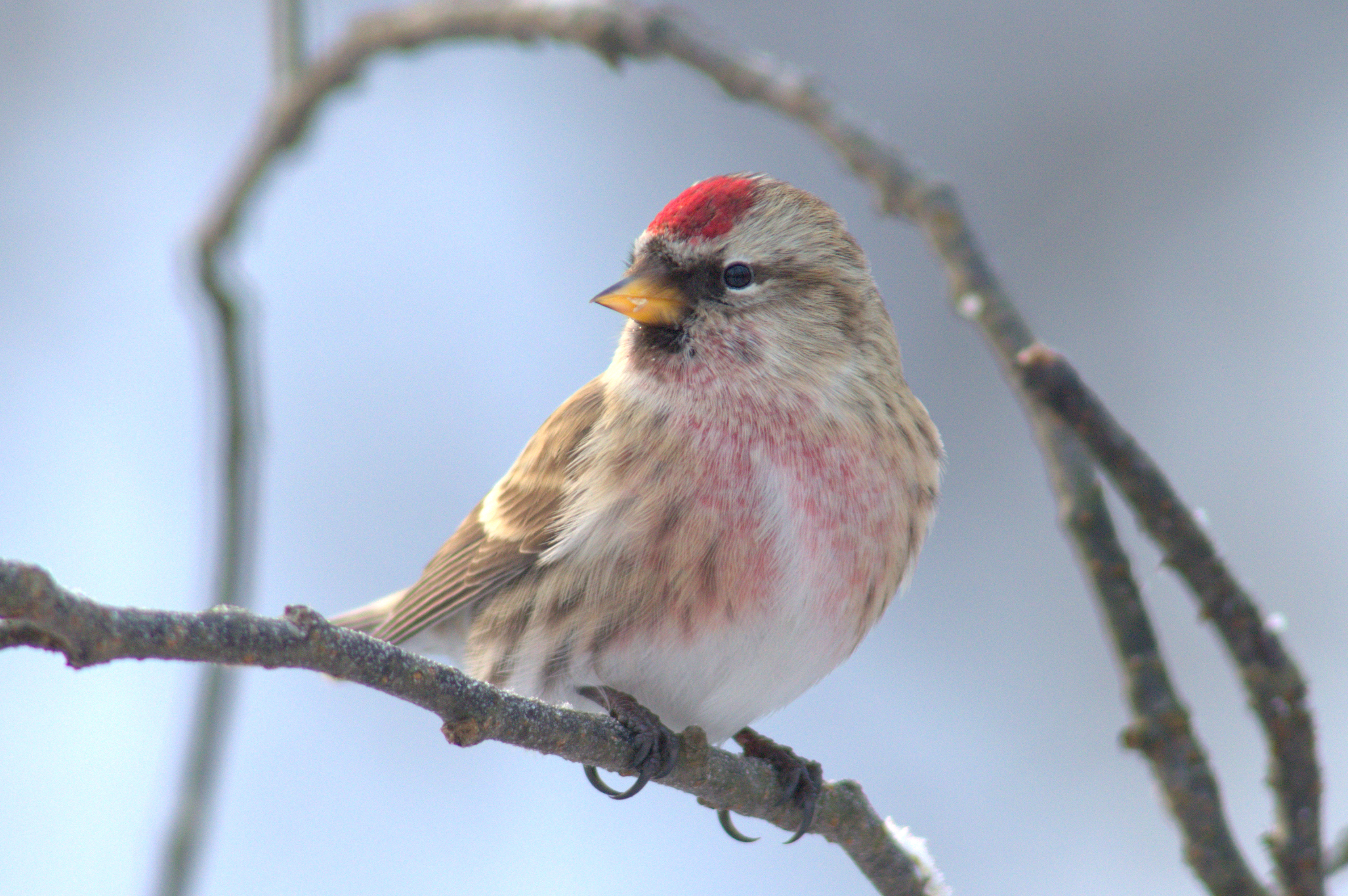 Mealy Redpoll Acanthis flammea, male; Kotka, Finland